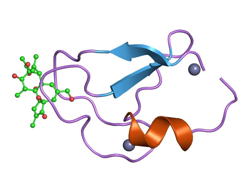 Cartoon representation of the molecular structure of protein registered with 1ptr code.